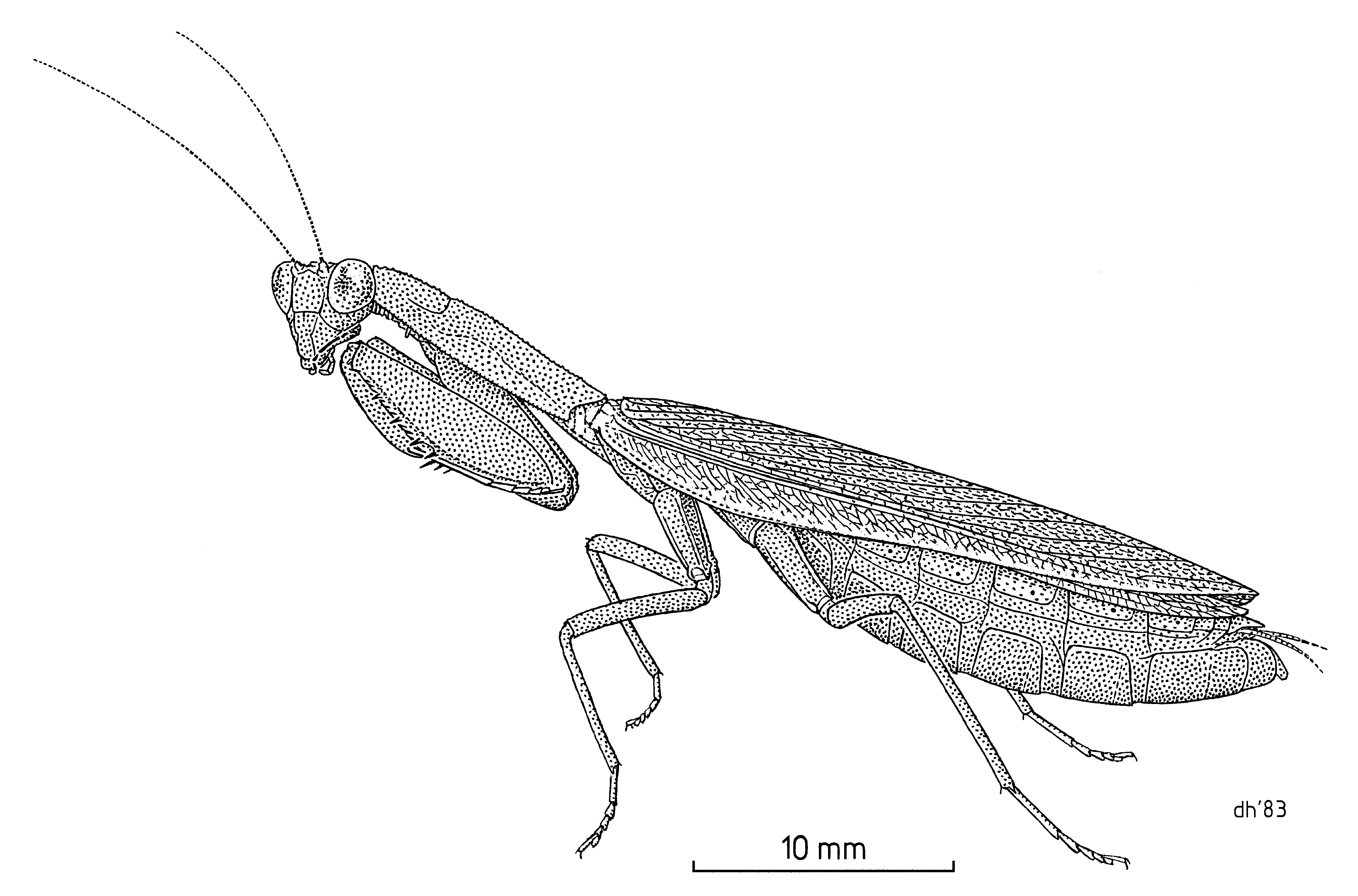 (Mantodea: Mantidae) Orthodera novaezealandiae illustrated by Des Helmore.